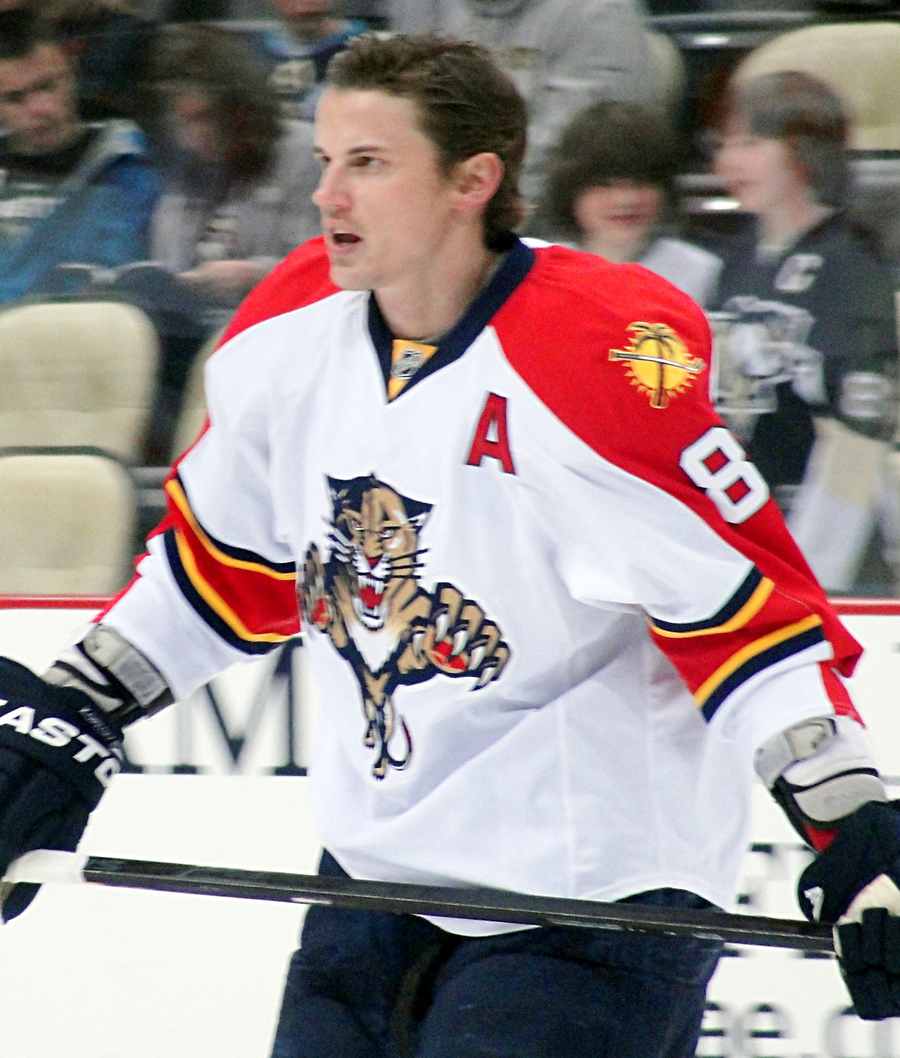 Florida Panthers forward Tomas Kopecky skates against the Pittsburgh Penguins, March 9, 2012 at Consol Energy Center in Pittsburgh, PA.